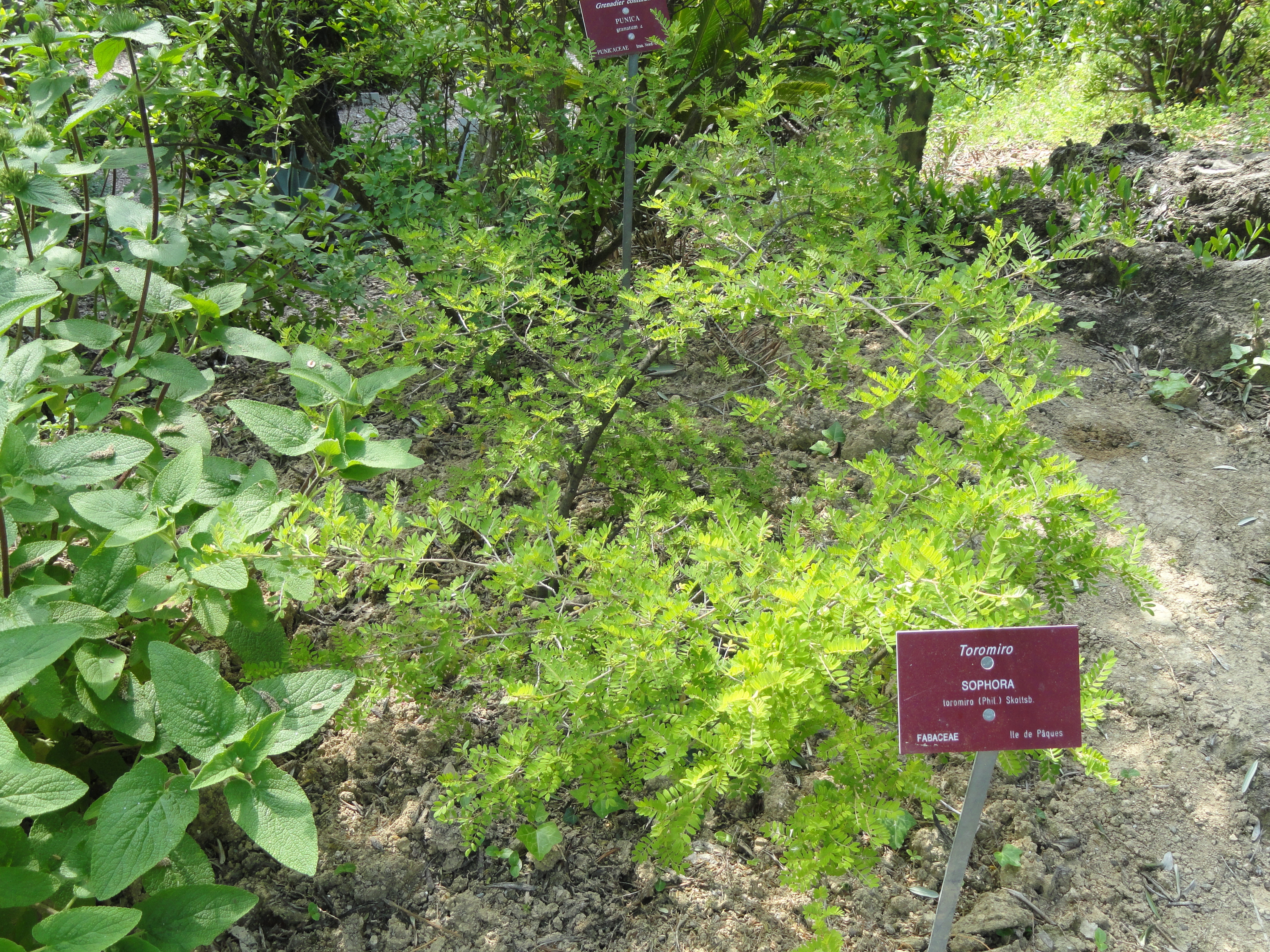 Sophora toromiro specimen in the Jardin botanique du Val Rahmeh, Menton, Alpes-Maritimes, France.